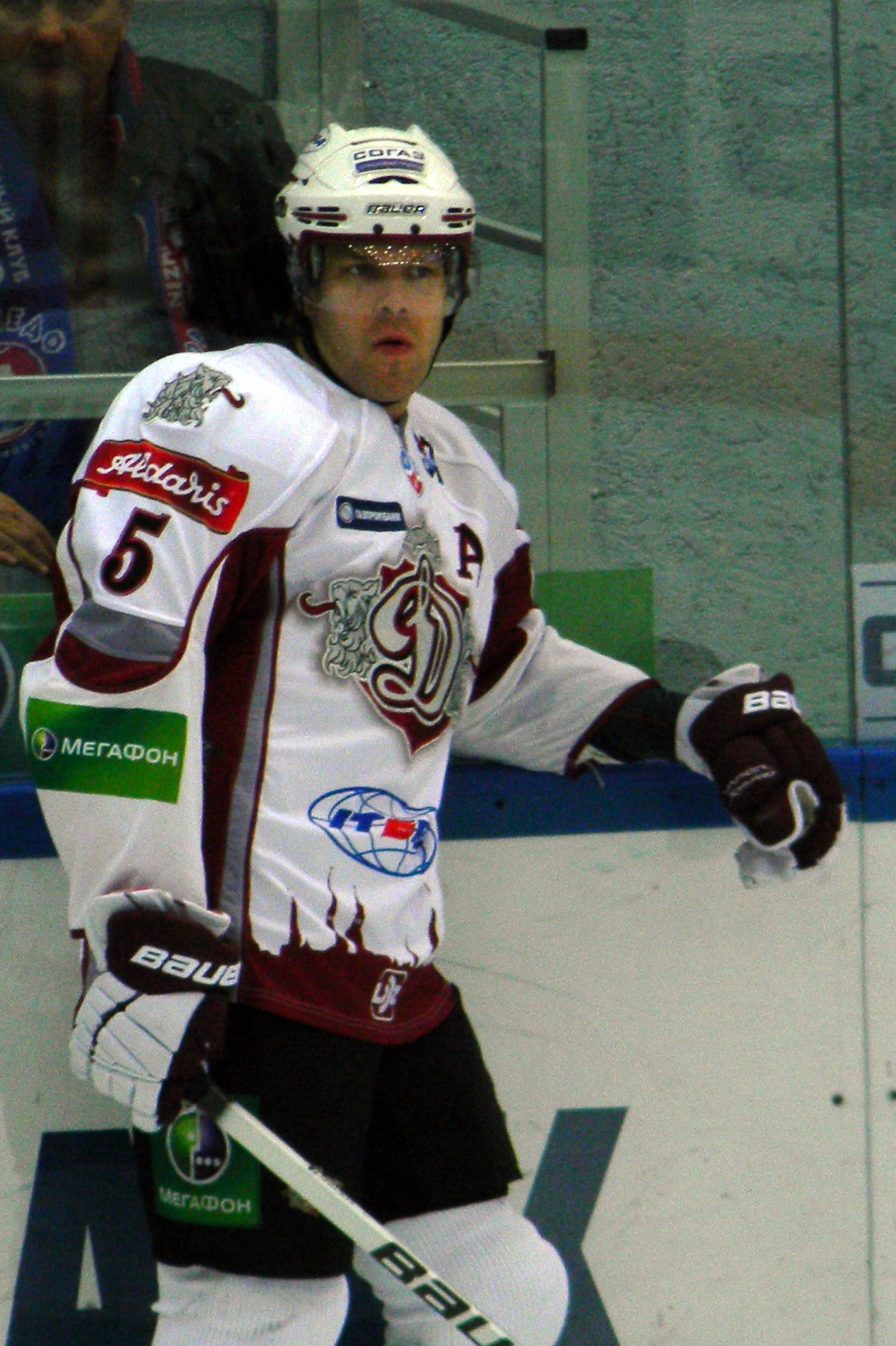 Janis Sprukts, a hockey player from Torpedo Nizhny Novgorod